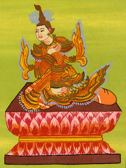 Medaw Shwezaga nat (spirit), th in the official pantheon of Burmese nats